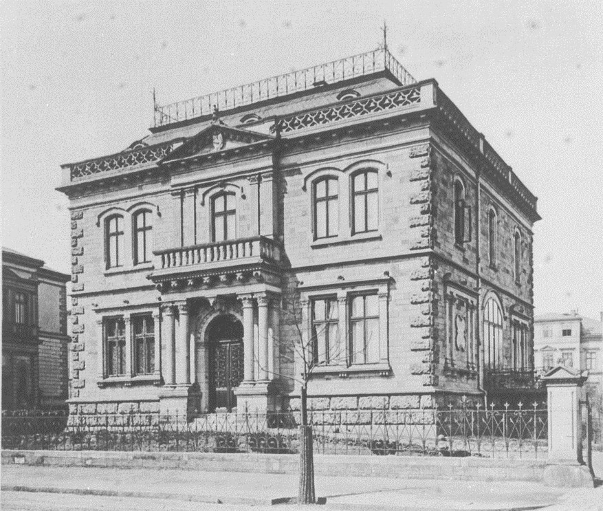 Dresden Haus Goethestraße 13. Aufnahme um 1875 (zerstört)